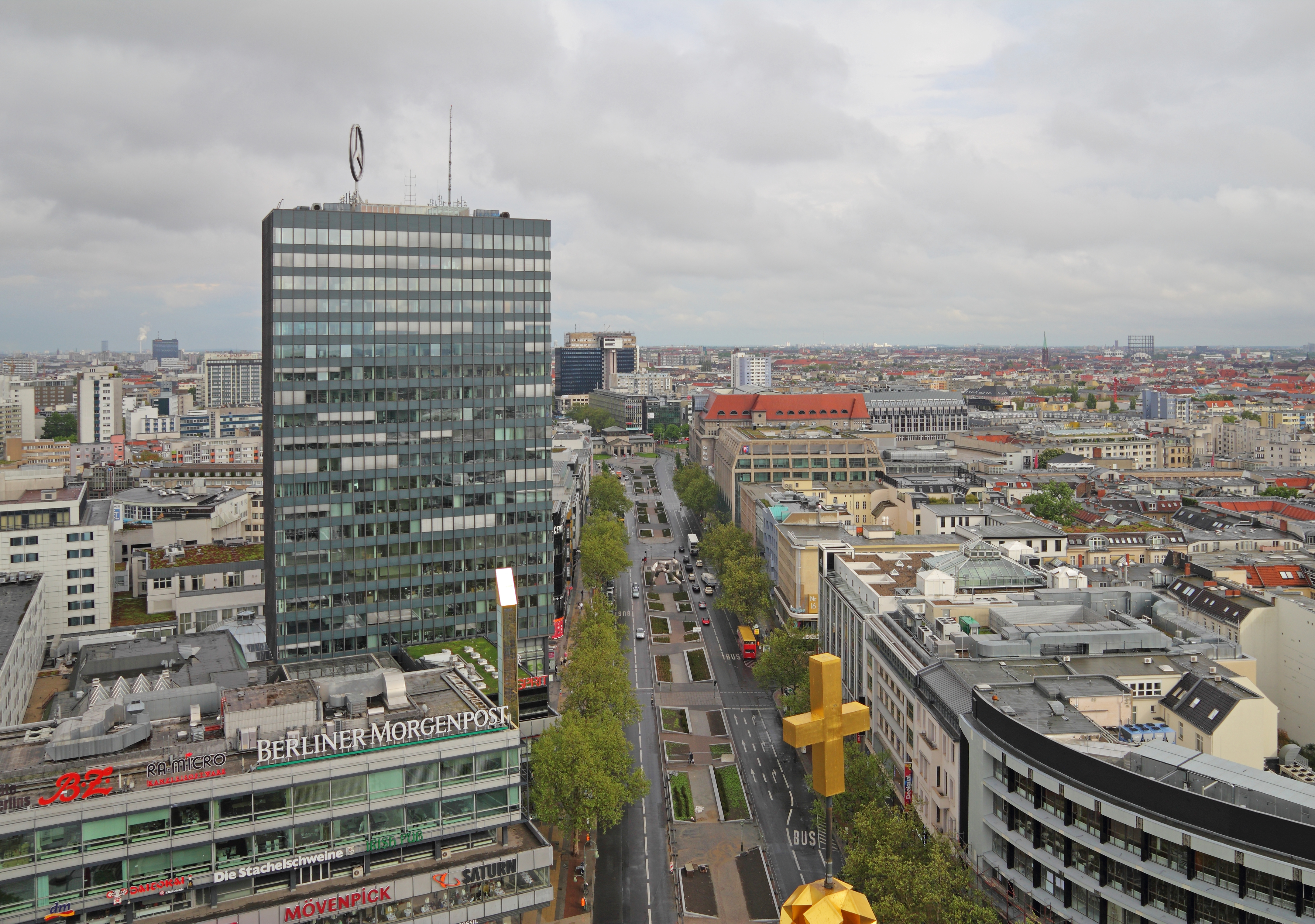 Views from the scaffolds of the Kaiser Wilhelm Memory Church. Berlin-Charlottenburg.